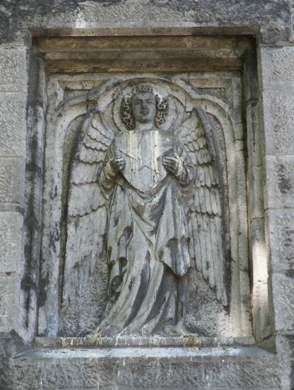 Angel, Poort Waerachtig, Maastricht, The Netherlands. By Frans van de Laar, 1887.